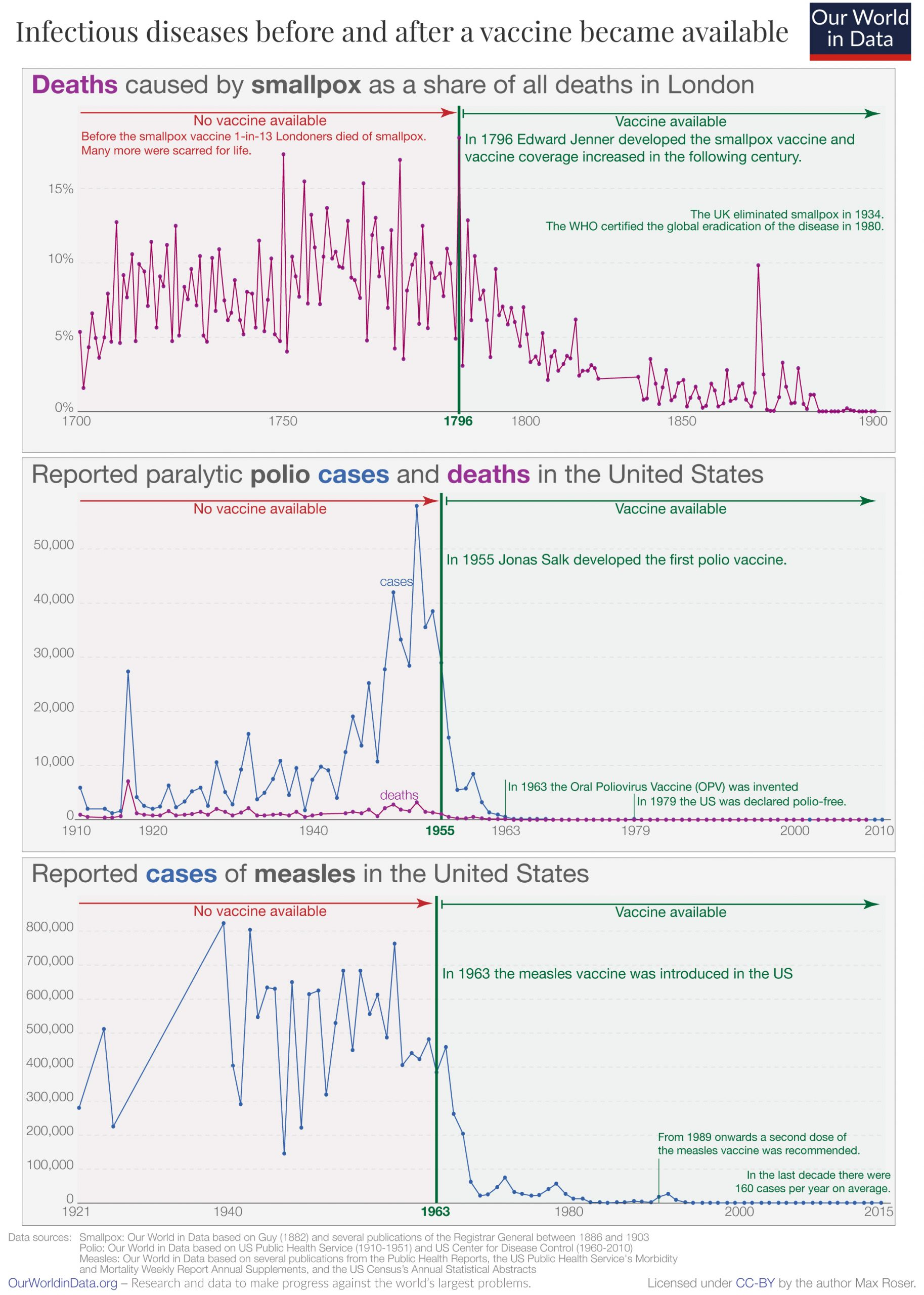 The evolution of three infectious diseases (smallpox, polio and measles) over several decades. You see the data before and after the first vaccination became available.